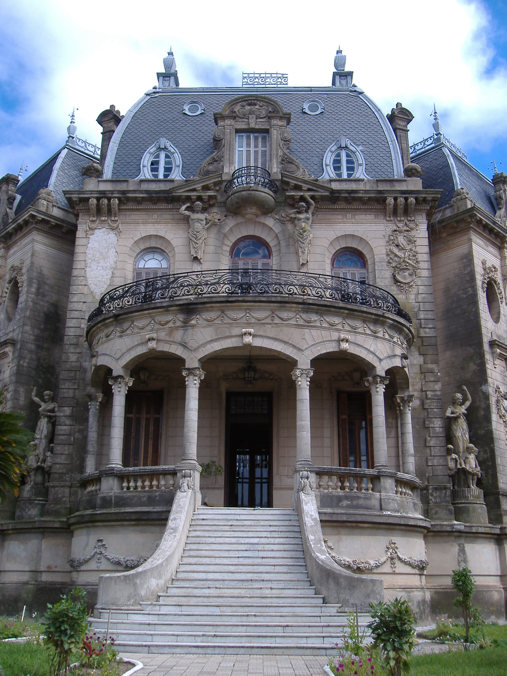 Arruabarrena Palace, former home of the Arruabarrena family built in 1919, now a museum, in Concordia, Entre Ríos Province, Argentina.